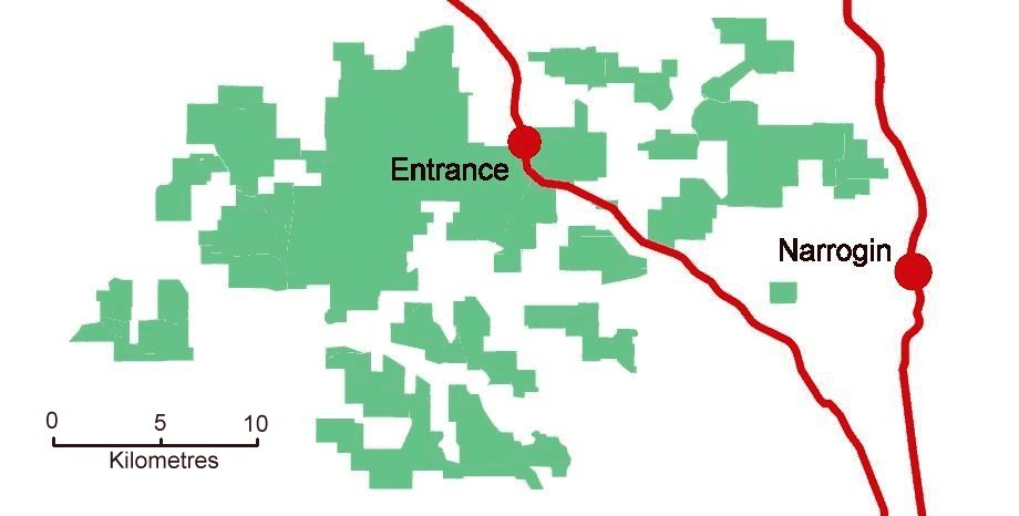 Dryandra Woodlands in Western Australia